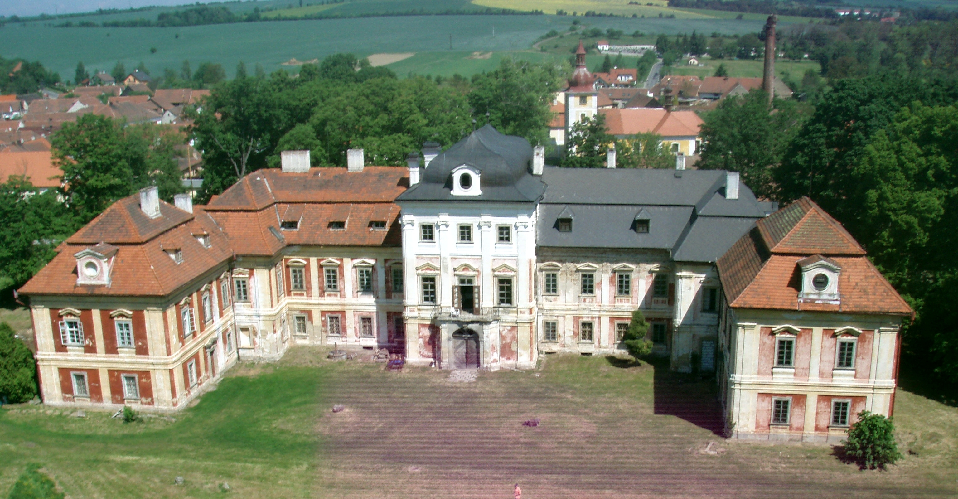 Dolni Lukavice - Castle